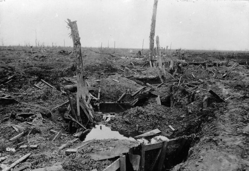 The Battle of Armentiers. Captured English fortifications in front of Armentiers, completely destroyed by German artillery.